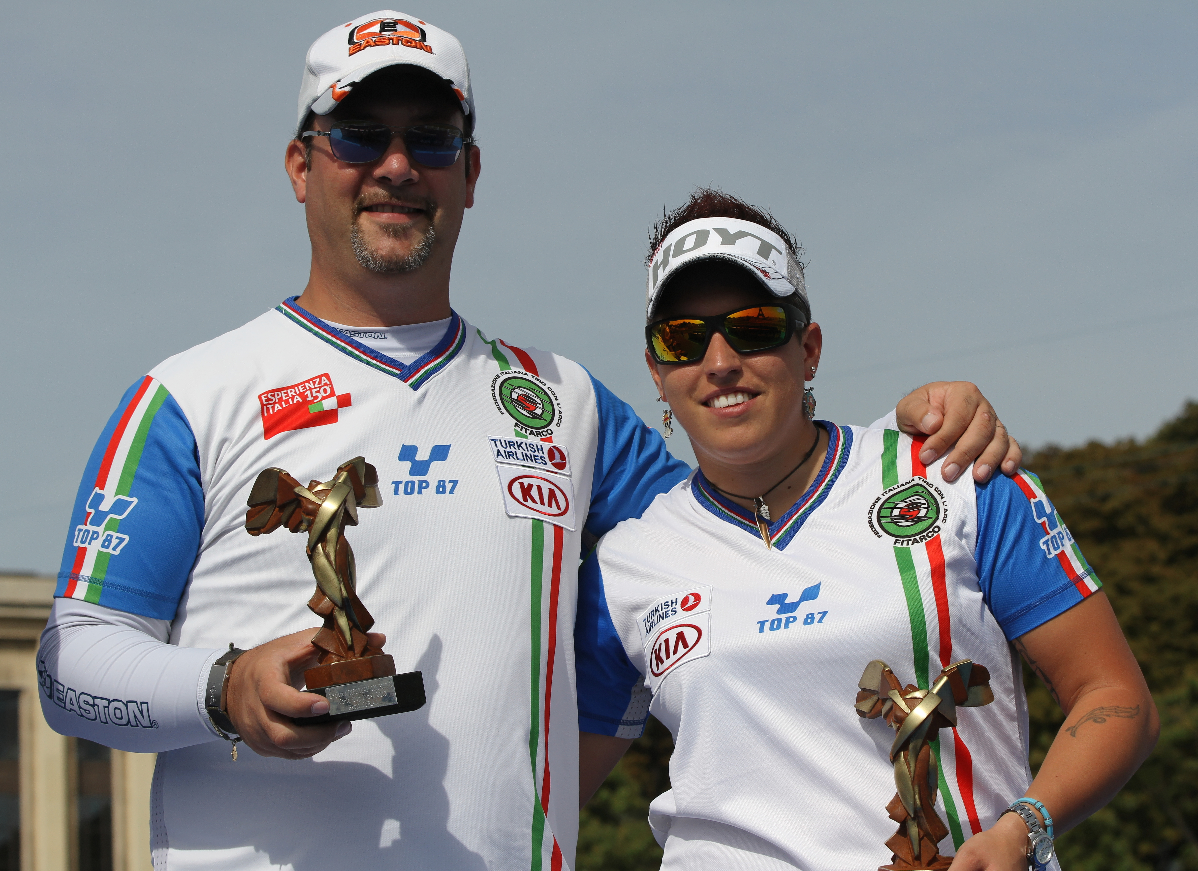 2013 FITA Archery World Cup, Paris, France. Mixed Team Compound Final. Pascale Lebecque and Pierre-Julien Deloche vs Marcella Tonioli and Sergio Pagni.